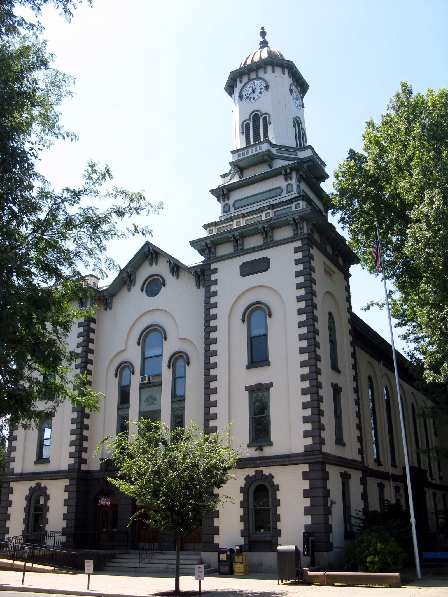 The Northumberland County Courthouse in Sunbury, Pennsylvania was built by D.S. Rissell in 1865. It was listed on the National Register of Historic Places in 1974.